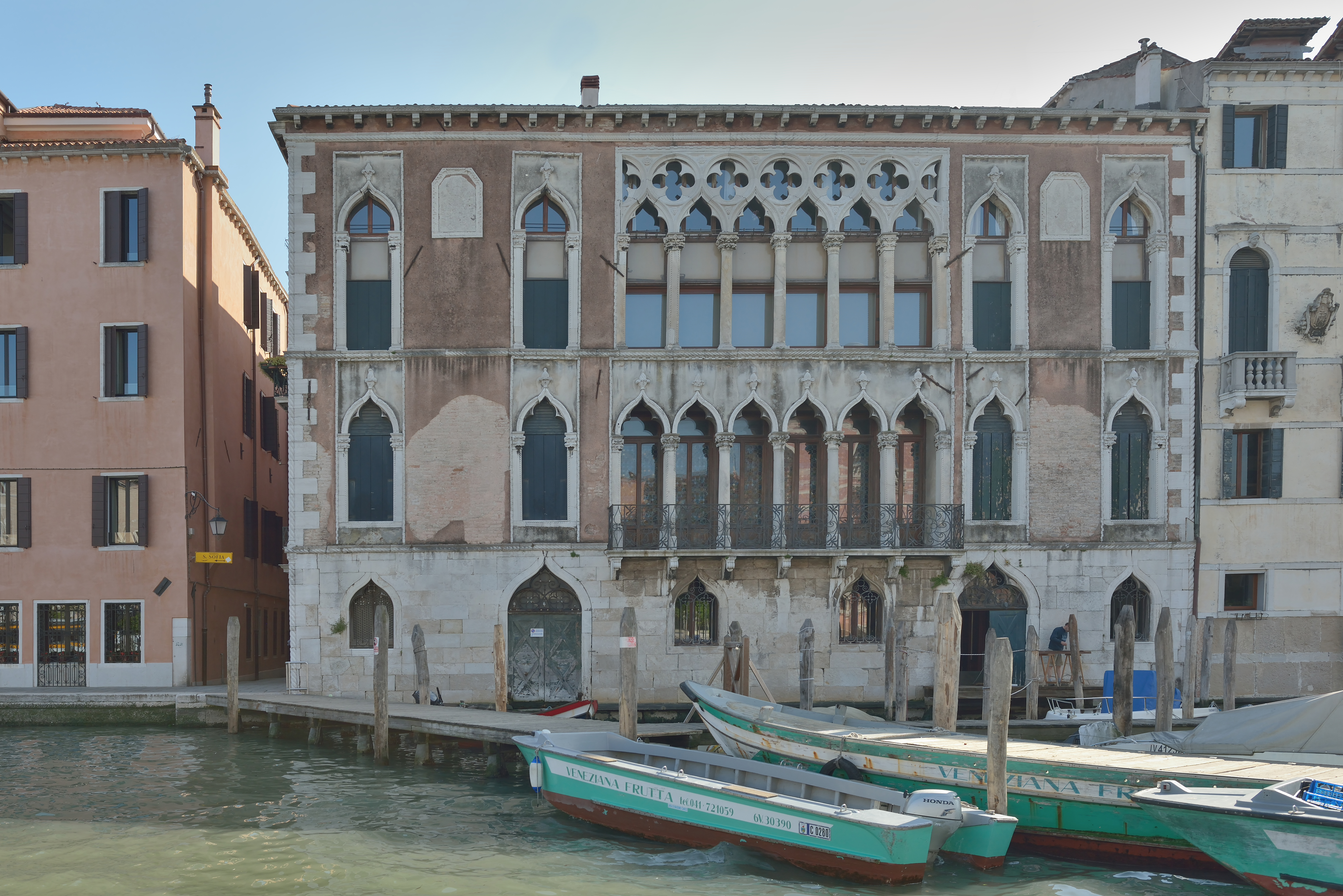 Palazzo Morosini Brandolin on the Canal Grande in Venice.